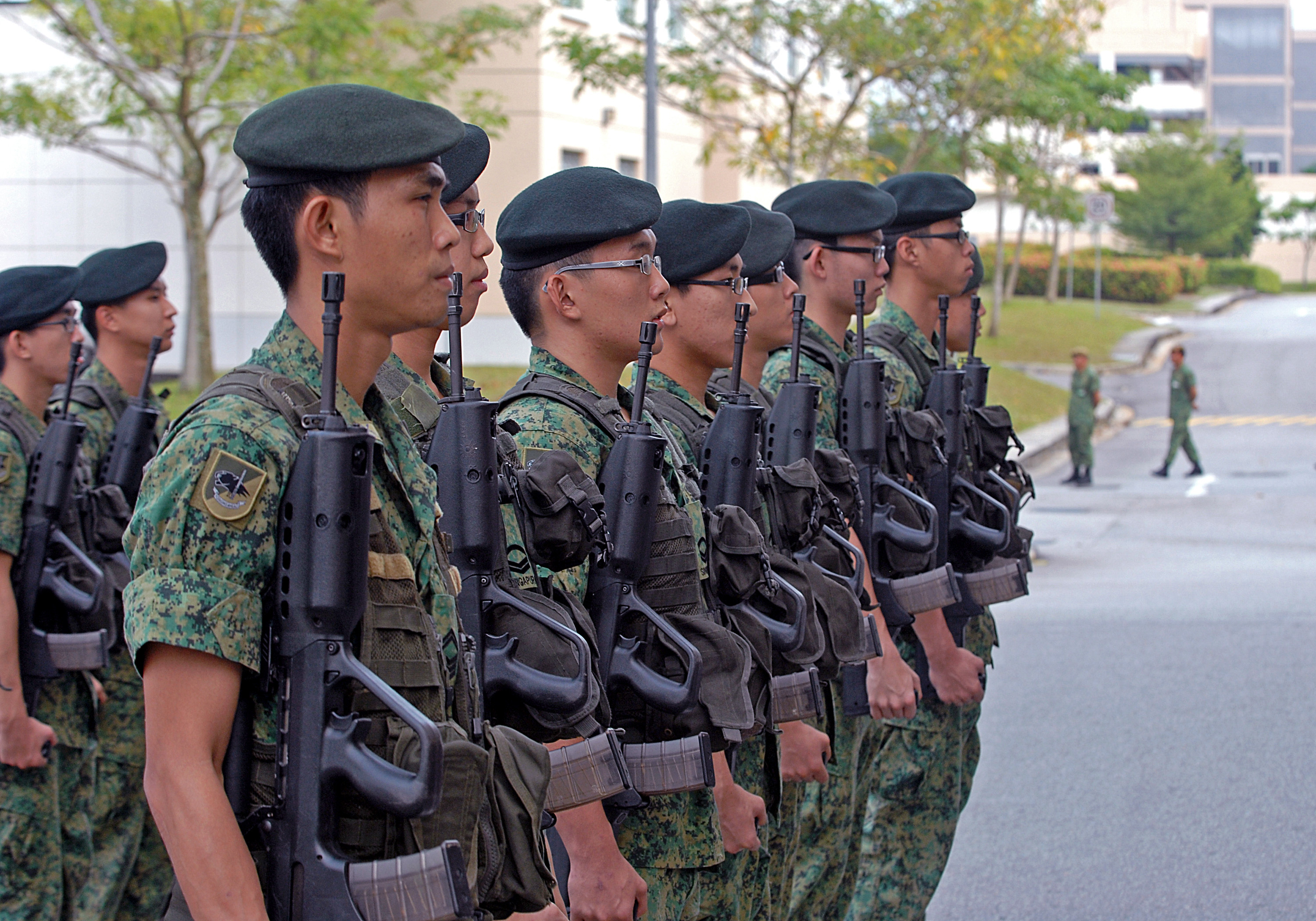 A platoon of Singapore infantry soldiers stand at attention as they await the arrival of Maj. Gen. Patrick Wilson, deputy commanding general, Army National Guard, United States Army Pacific, in Singapore, July 16. Wilson was visiting members of Operation Tiger Balm 09, a coalition training exercise between the Singapore army, and citizen soldiers and citizen airmen from Oregan, Hawaii, Utah and Arizona.